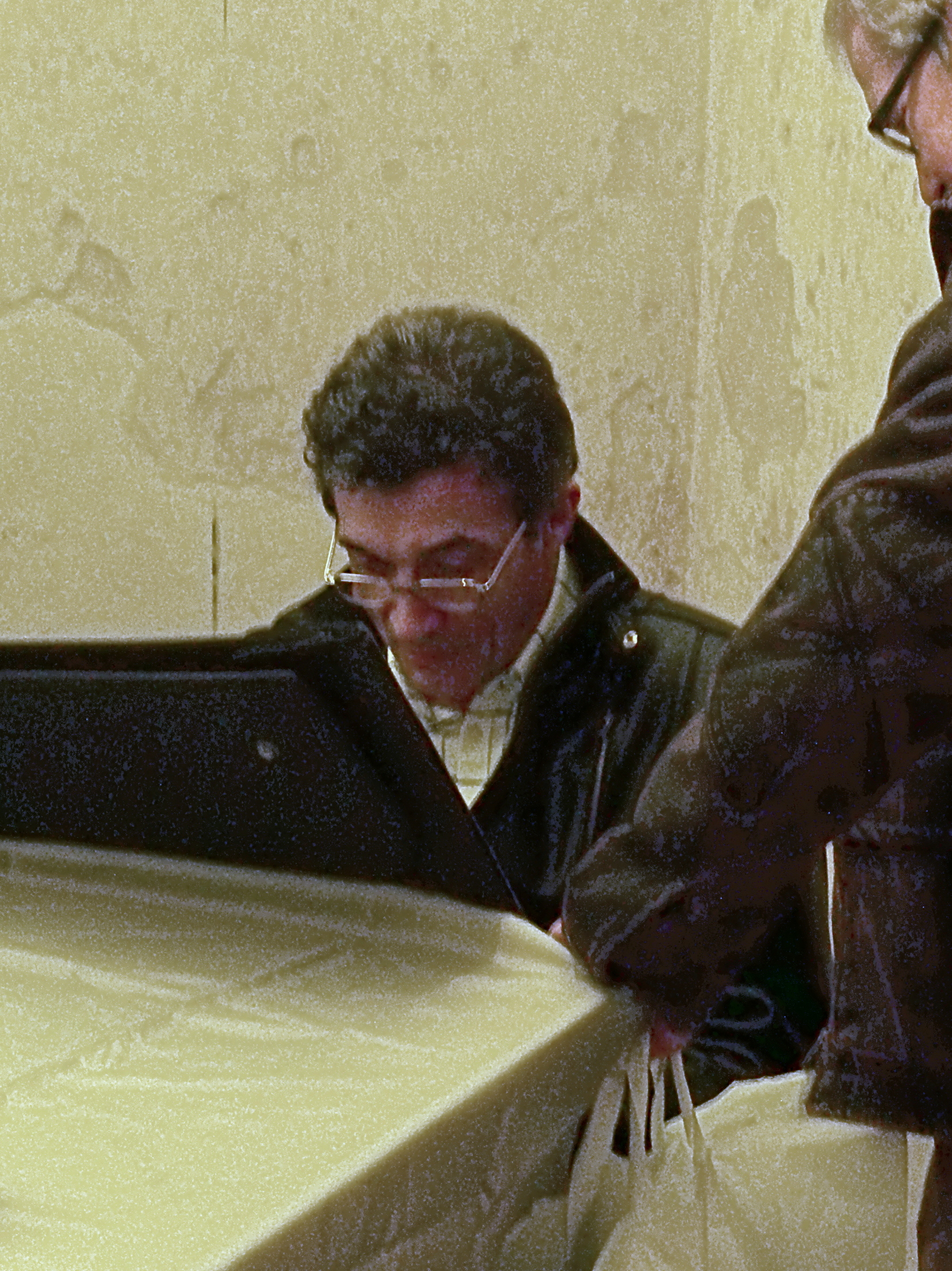 Personality rights warning Although this work is freely licensed or in the public domain, the person(s) shown may have rights that legally restrict certain re-uses unless those depicted consent to such uses. In these cases, a model release or other evidence of consent could protect you from infringement claims.